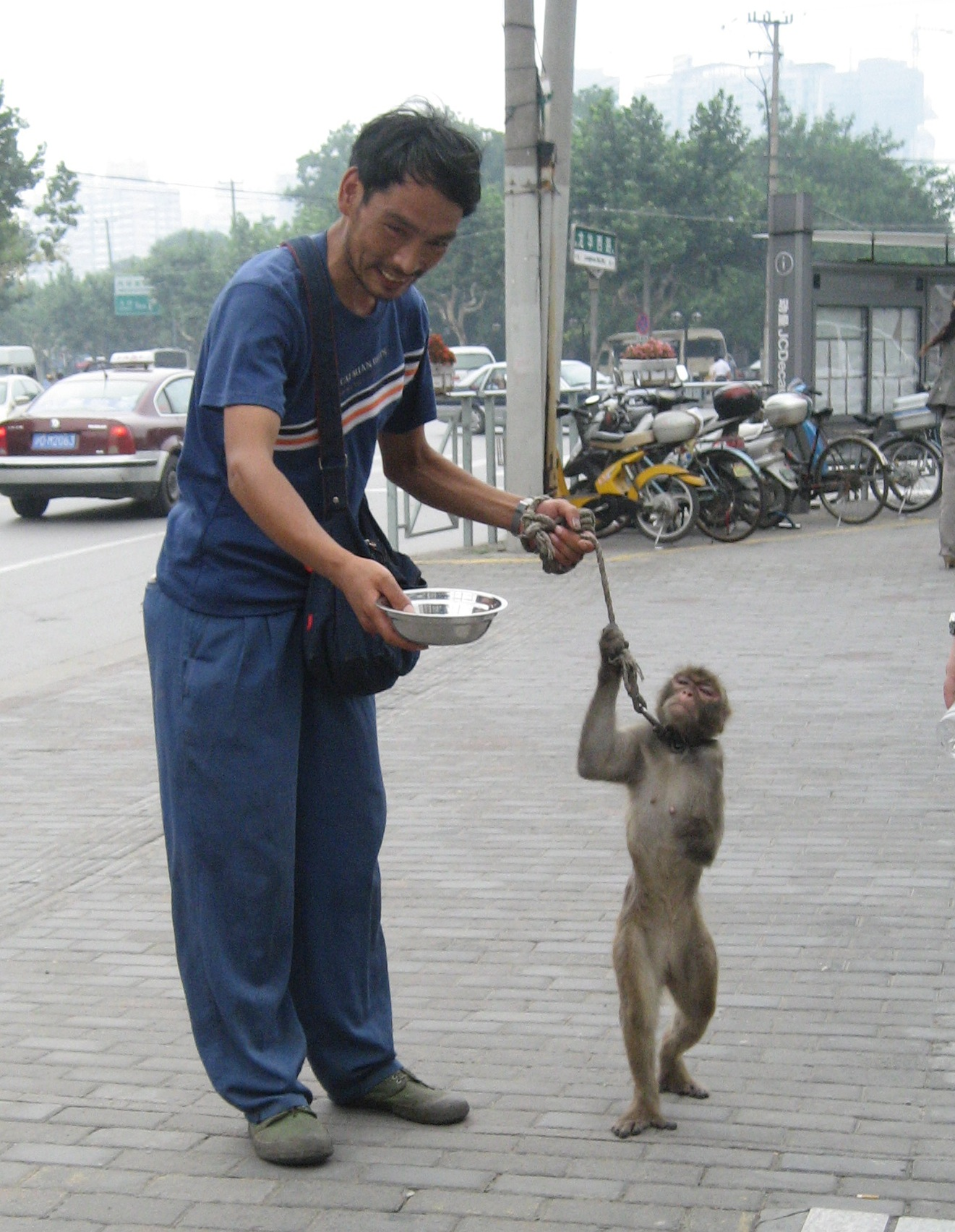 Image of a man with a monkey asking for quais in Shanghai.